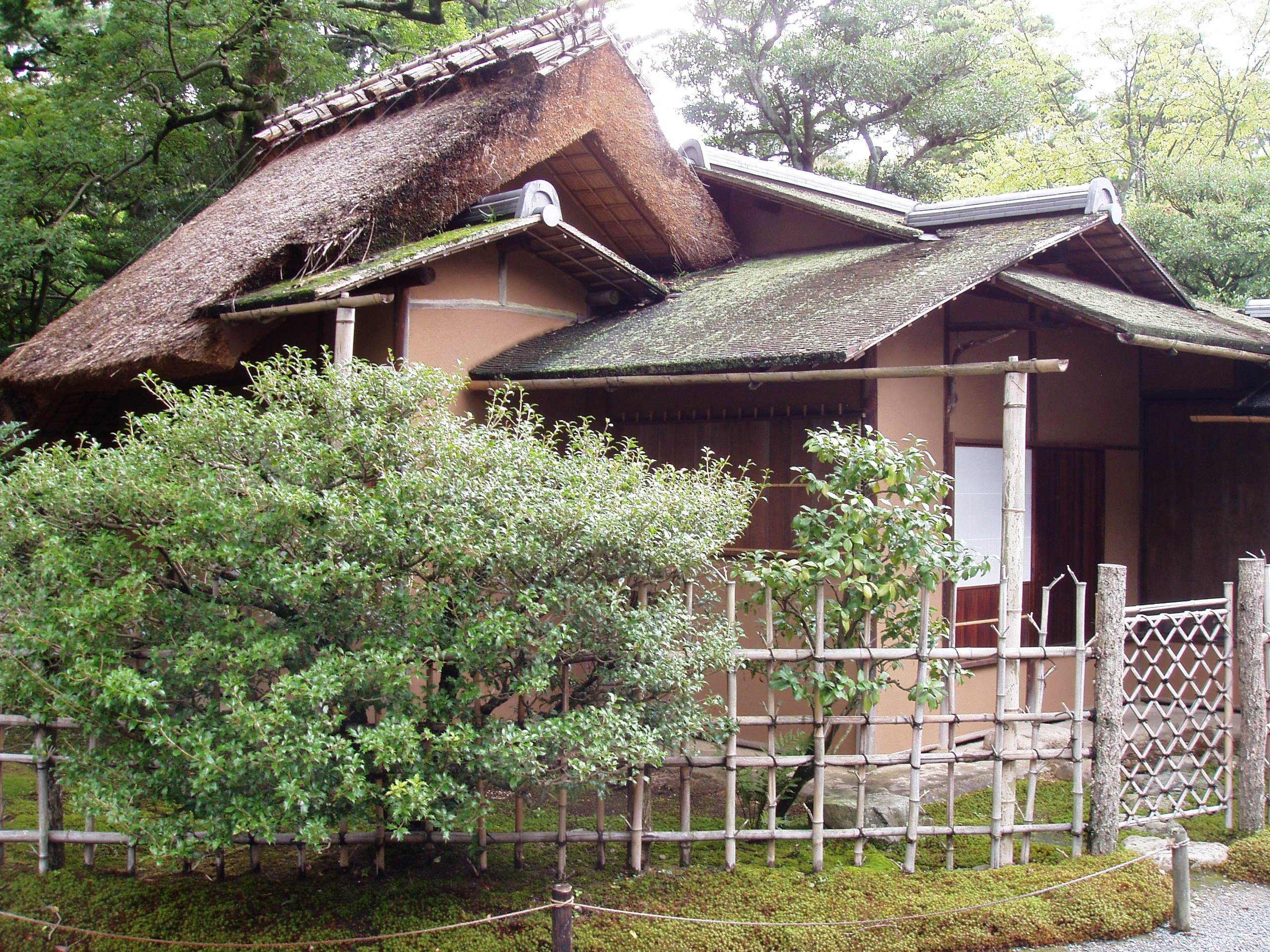 Sento Imperial Palace, Kyoto, Japan - Yushin-tei teahouse.